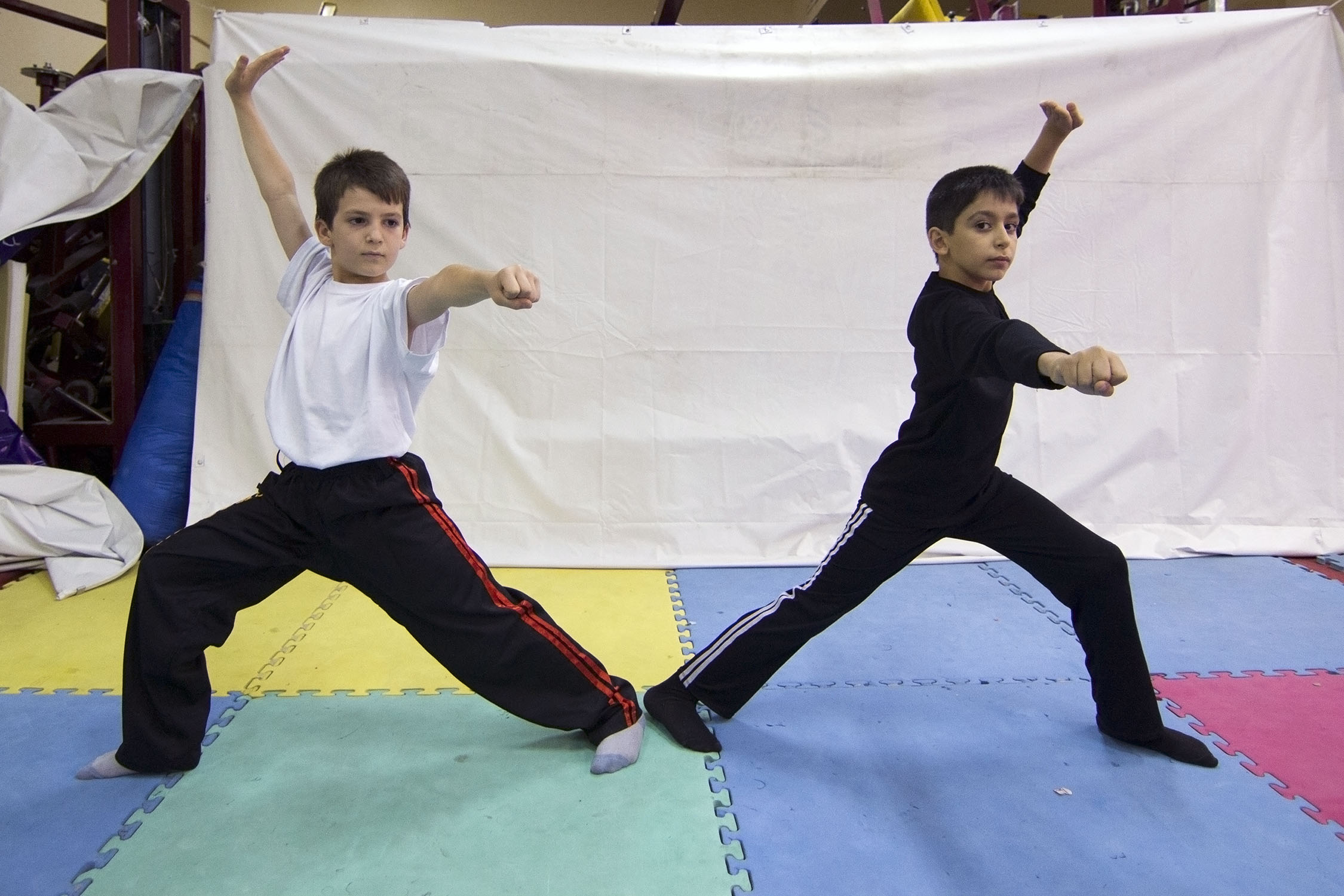 Biologically, a child (plural: children) is a human being between the stages of birth and puberty.